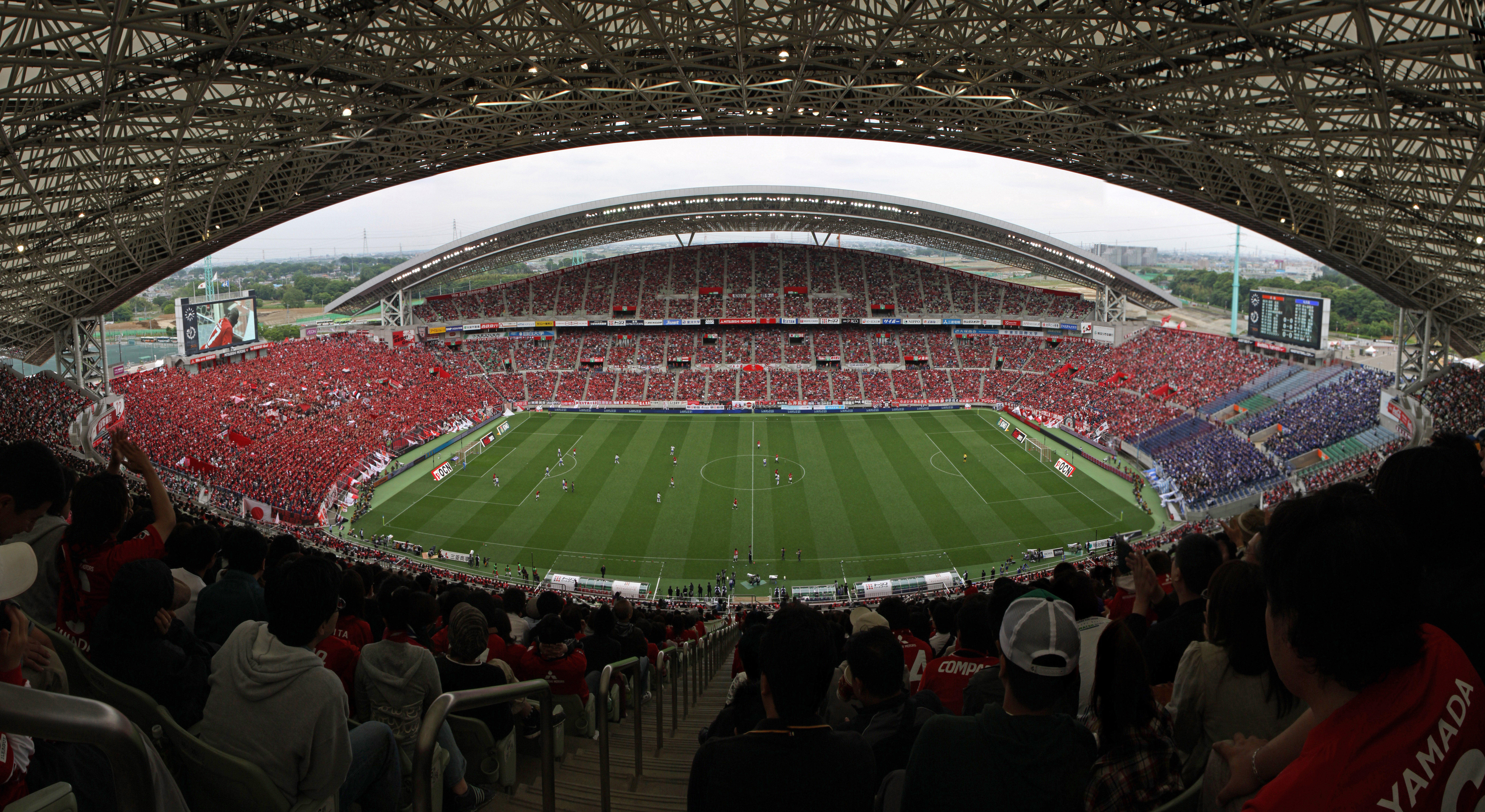 Panorama of Saitama Stadium